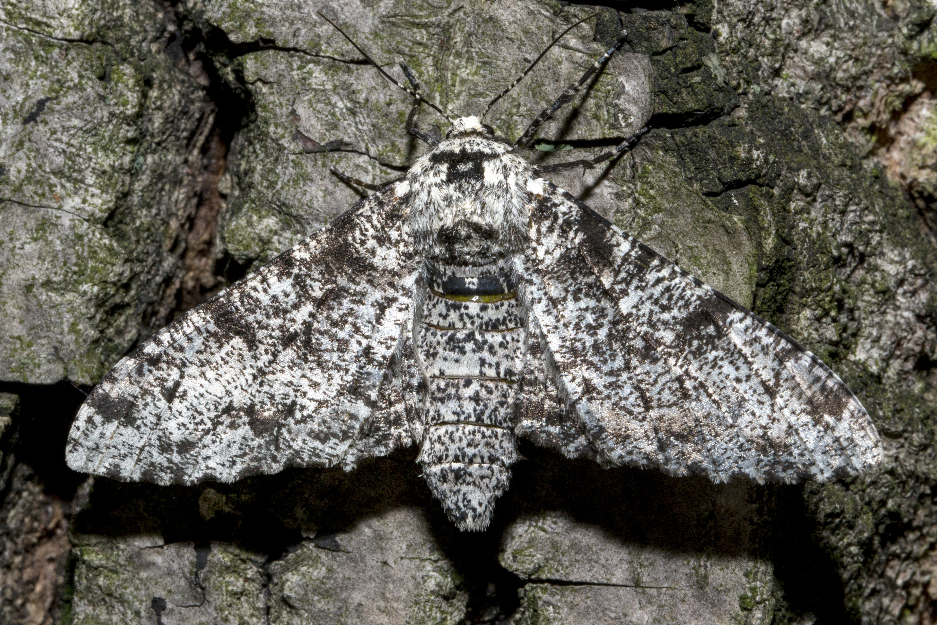 Peppered Moth, Lodz(Poland)